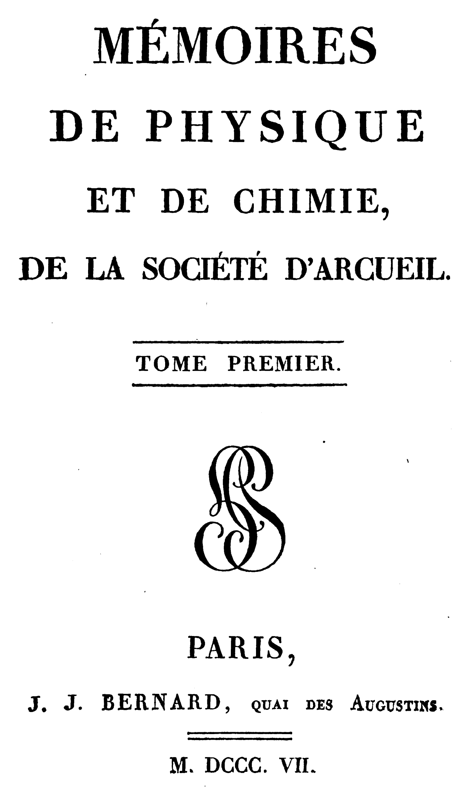 Titlepage of Mémoires de Physique et de Chimie, de la Société d’Arcueil. Volume 1